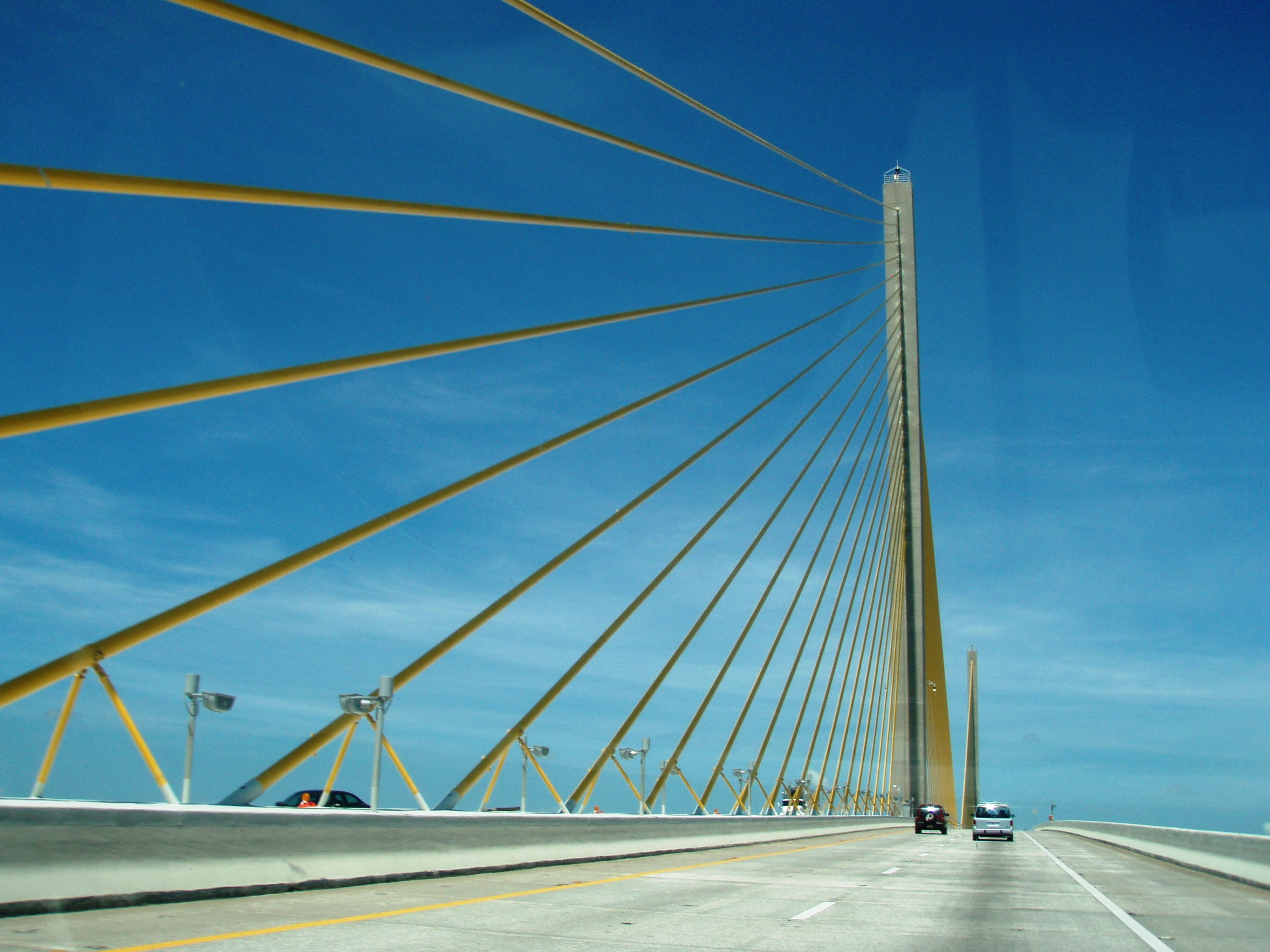 2010-09-10 Fort DeSoto Beach